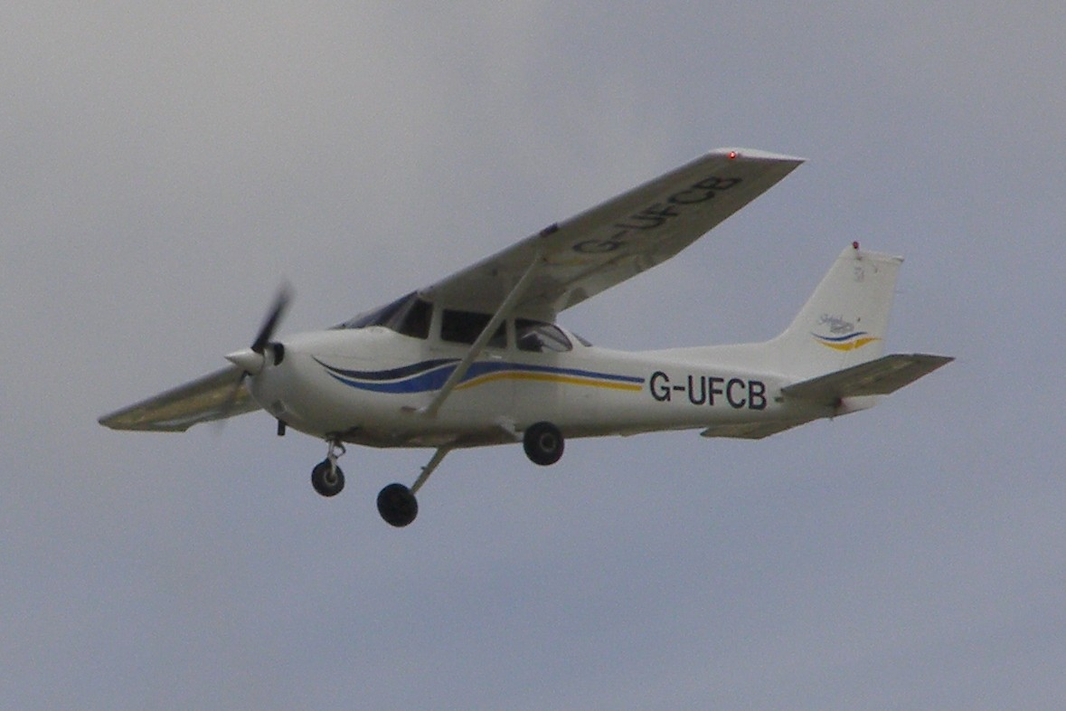 A 1999-built Cessna 172S registered G-UFCB at the Royal International Air Tattoo (RIAT) 2007 at RAF Fairford, England.